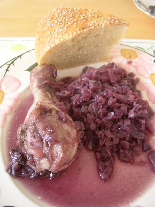 Chicken Fricassée with Red Cabbage